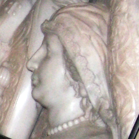 Tomb of Sir Thomas Lucy III and his wife, Alice Spencer, in St. Leonard's church, Charlecote, Warwickshire. Rotate and crop of Alice's head